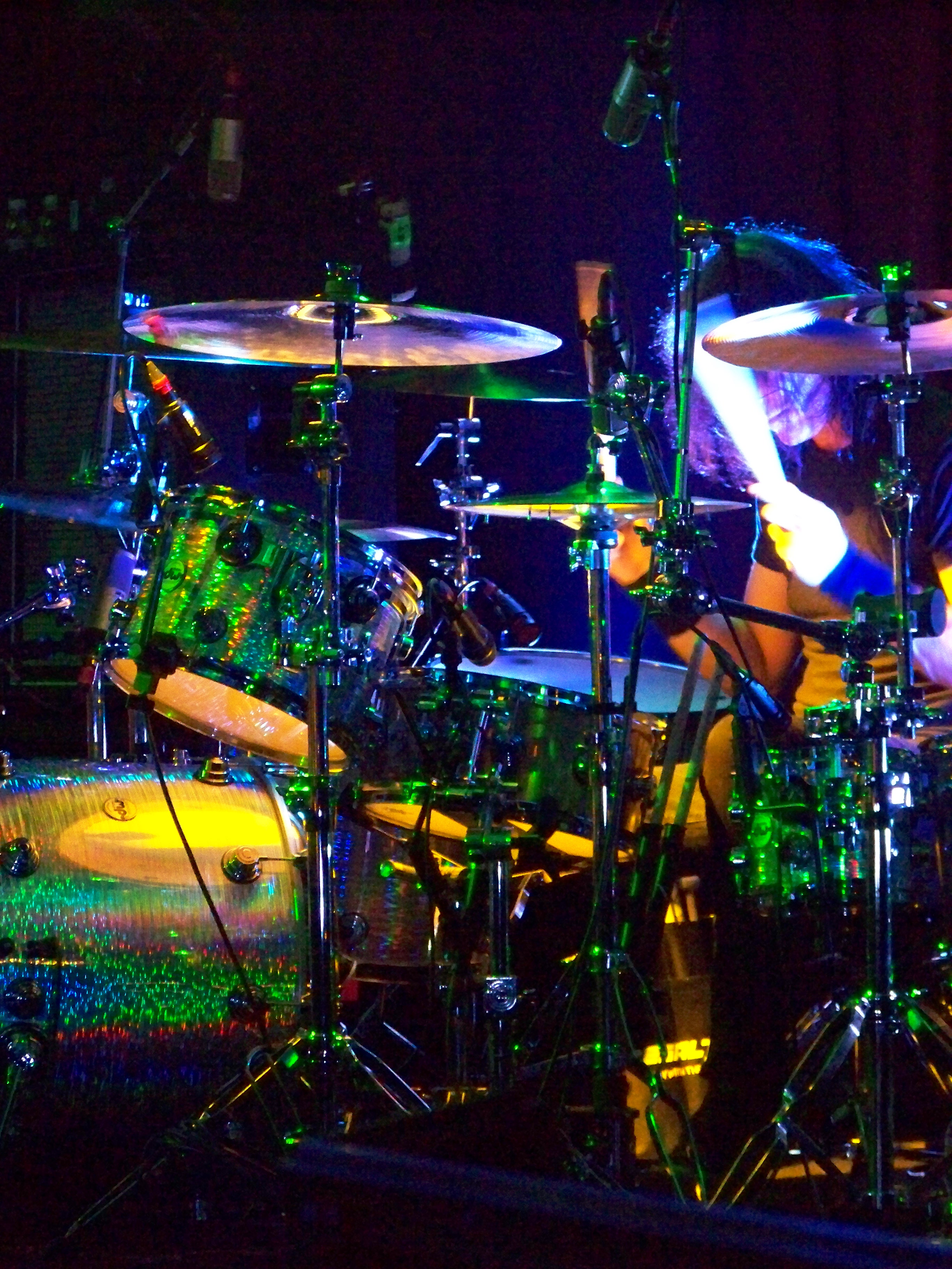 Sean Kinney live at Boston, 2009